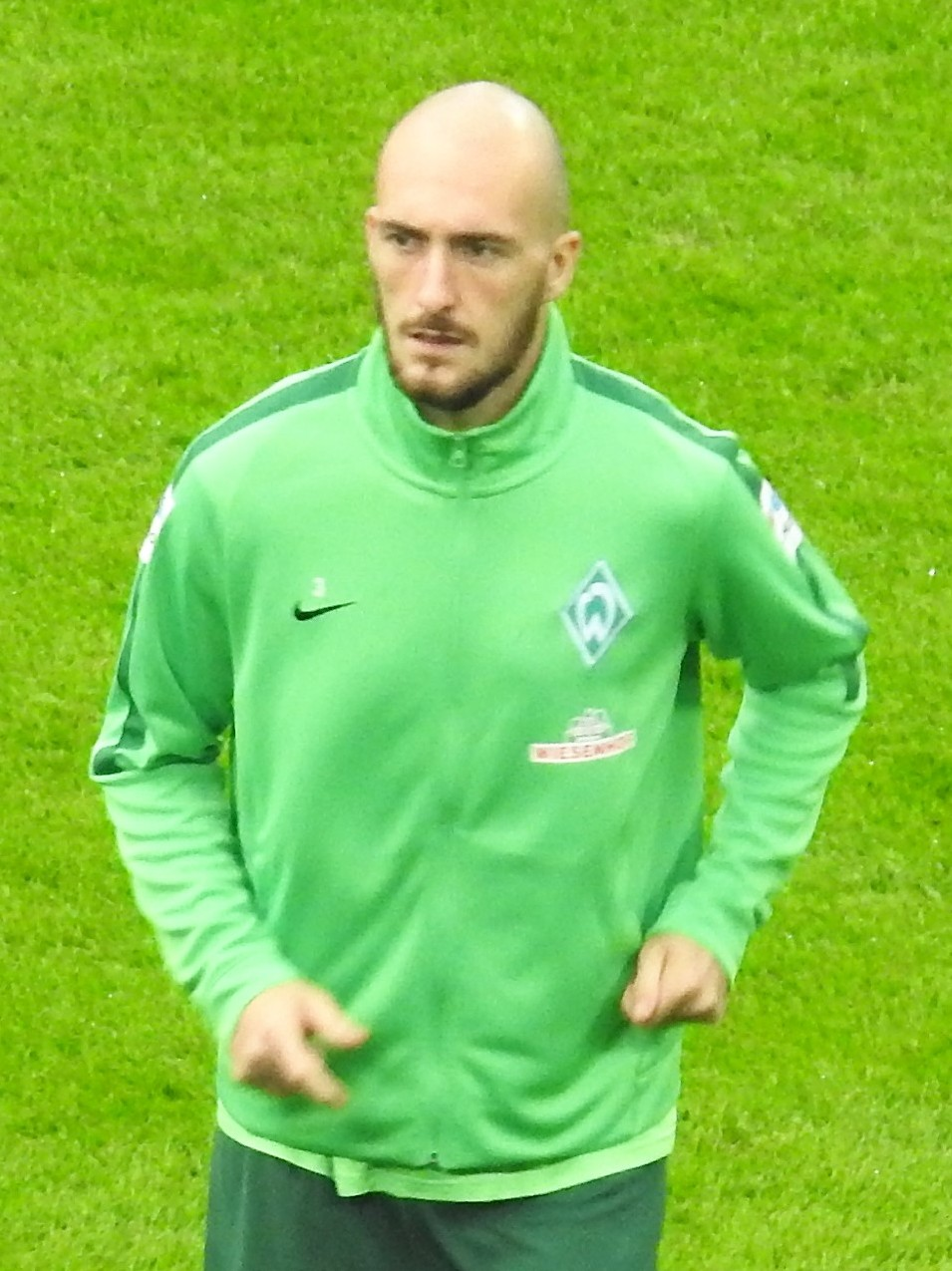 Italian footballer Luca Caldirola warming up with SV Werder Bremen in the 2017–18 season.